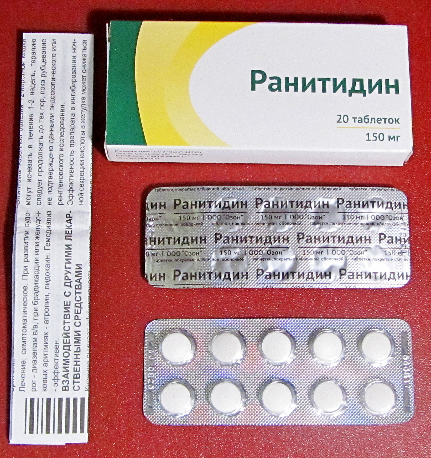 Ranitidine, sold under the trade name Zantac among others, is a medication that decreases stomach acid production